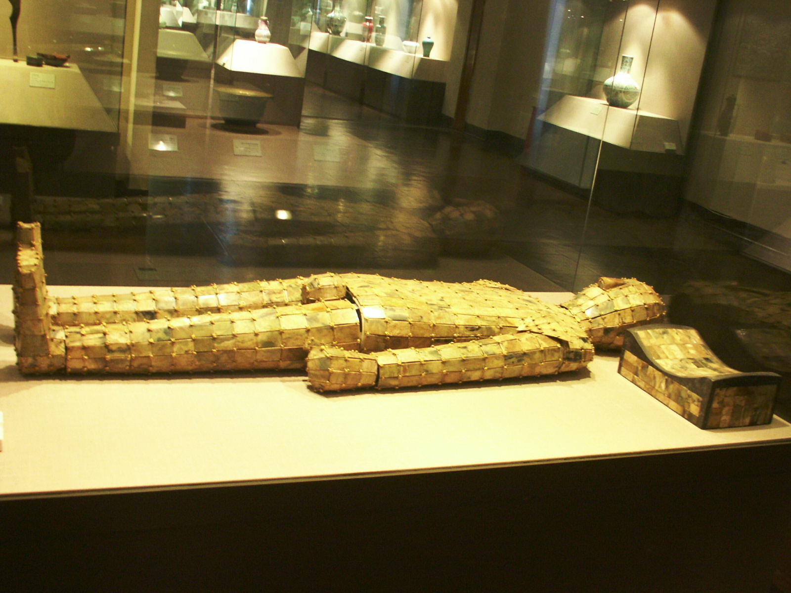 Jade burial suit at the National Museum of China in Beijing.